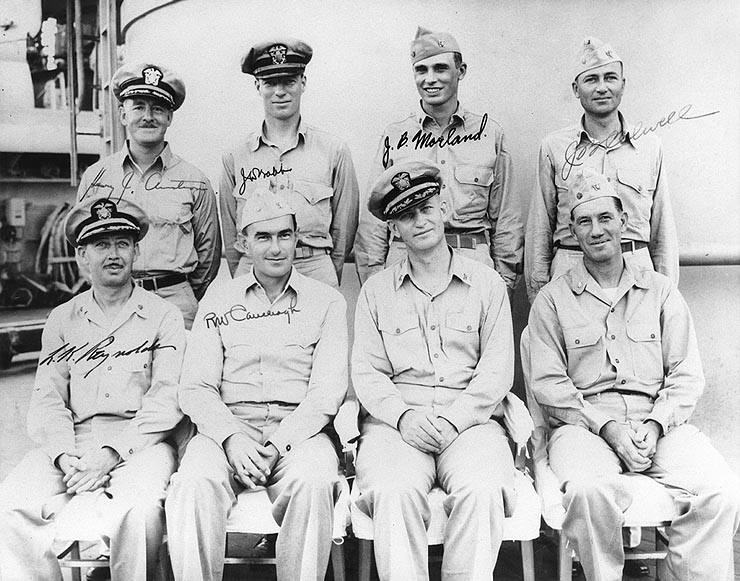 Captain Arleigh A. Burke, USN,, Commander Destroyer Squadron 23 (seated, right center), with other officers of the squadron, during operations in the Solomon Islands, circa 1943. Those present are (seated, left to right): Commander Luther K. Reynolds, Commanding Officer, USS Charles Ausburne (DD-570); Commander R.W. Cavenaugh; Captain Burke; Commander R.A. Gano, Commanding Officer, USS Dyson (DD-572). (standing, left to right): Commander Henry J. Armstrong, Commanding Officer, USS Spence (DD-512); Lieutenant J.W. Bobb; Commander J.B. Morland; and Commander J.B. Calwell. All but Cdr. Gano and Capt. Burke have autographed the original print.